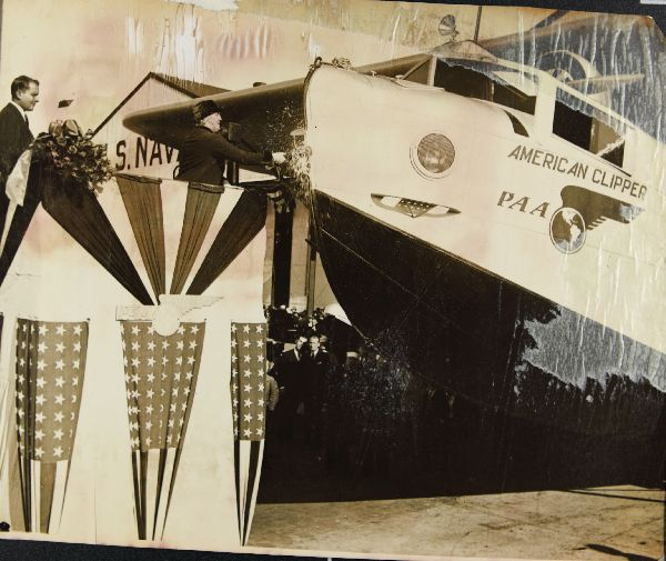 Catalog #: 00070988 Manufacturer: Sikorsky Designation: S-40